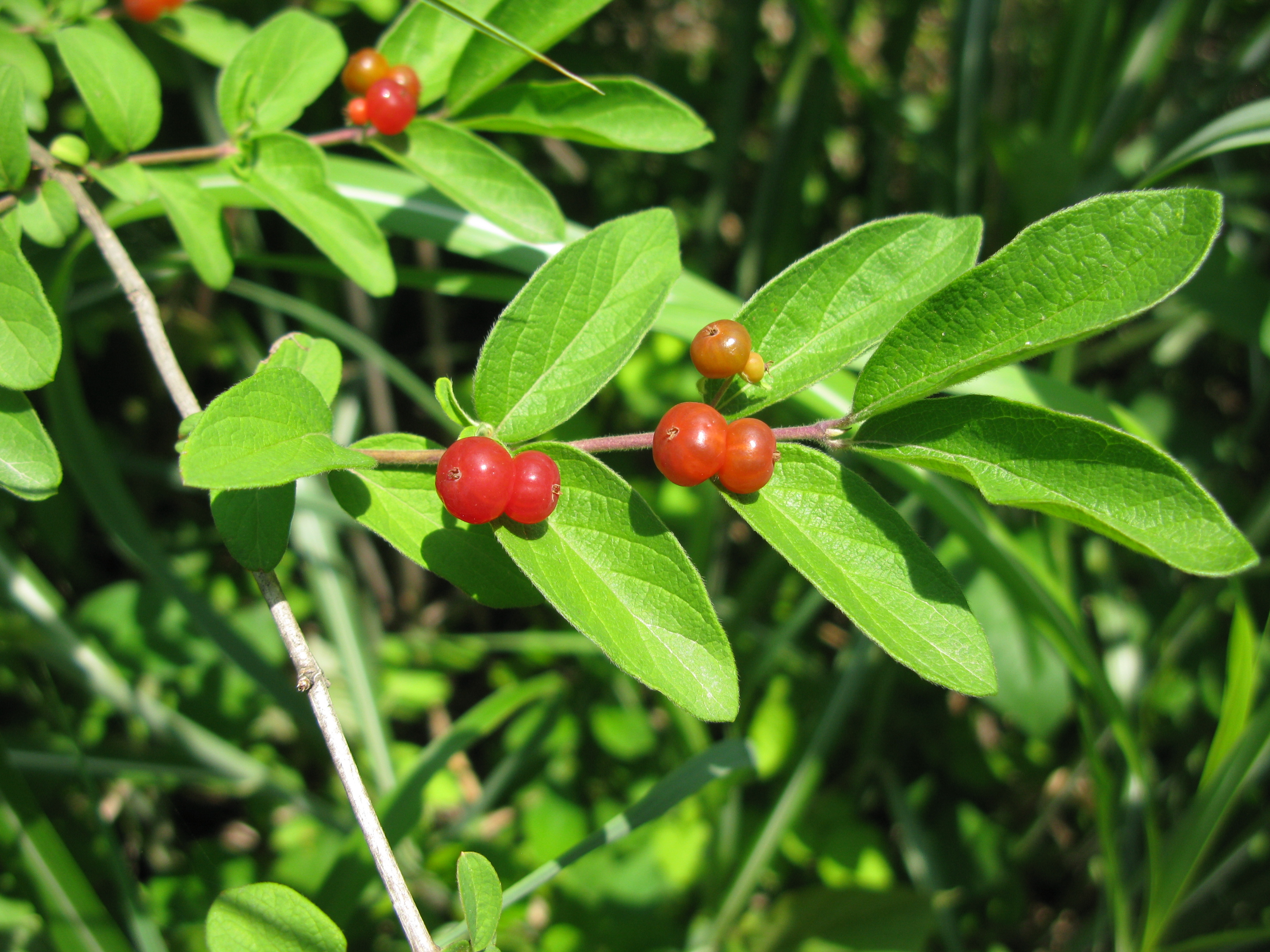 Lonicera morrowii, Aizu area, Fukushima pref., Japan